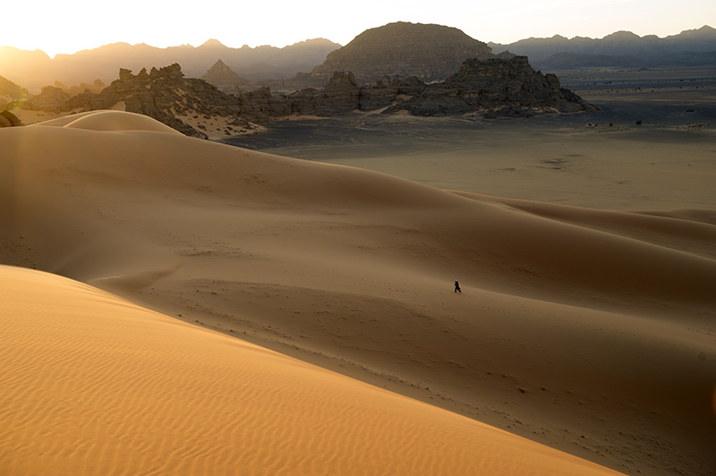 One of the most beautiful natural place in Libya, 'Wadi Awes' or 'Awes Valley' is a part of the famous Akakus mountains chain and it's located 90 Km south of Al-Awenat City in Libyan desert.